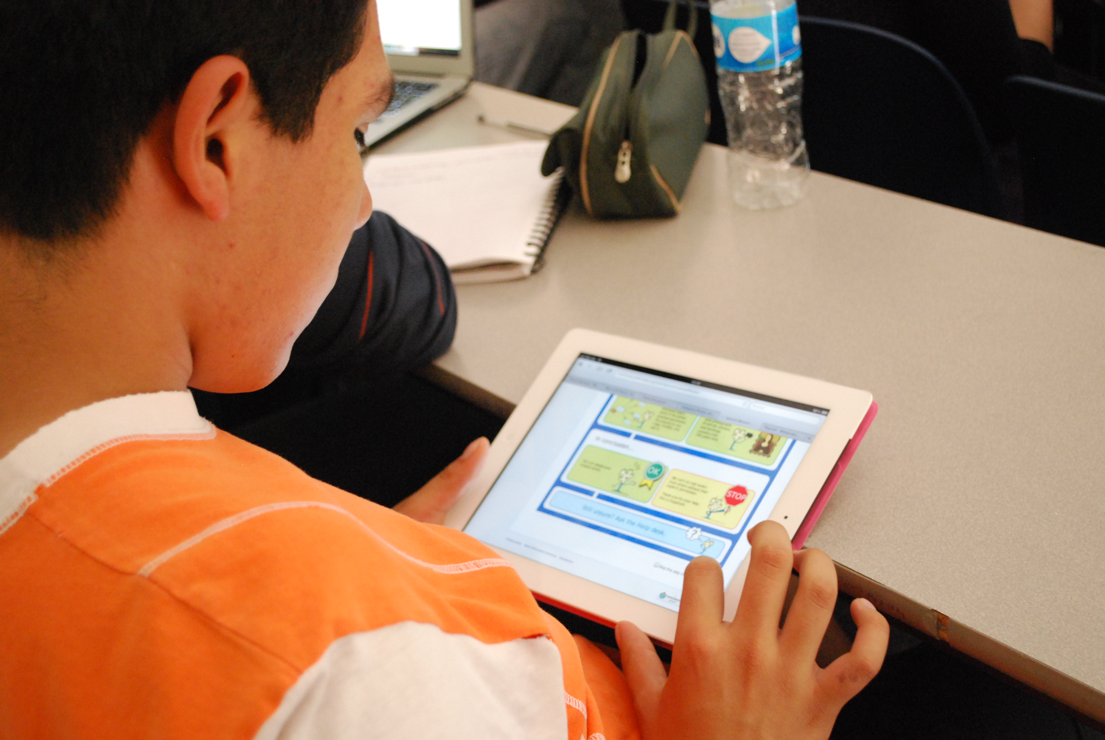 Medical English student (Group 2) uploading photograph related to their field into Wikimedia Commons